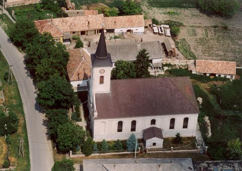 Kocs, Hungary, aerialphotography